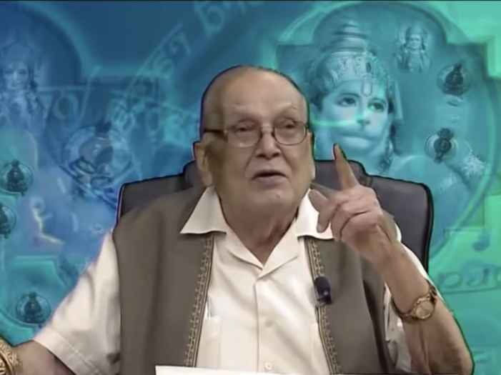 Sat Maharaj on the set of the SDMS’s TV and radio show The Maha Sabha Strikes Back.